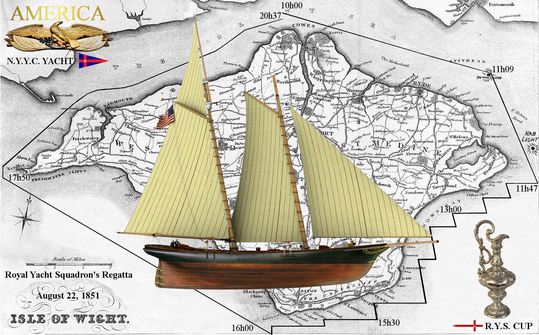 schooner Yacht America and the regatta around the Isle of Wight, on August 22,1851.